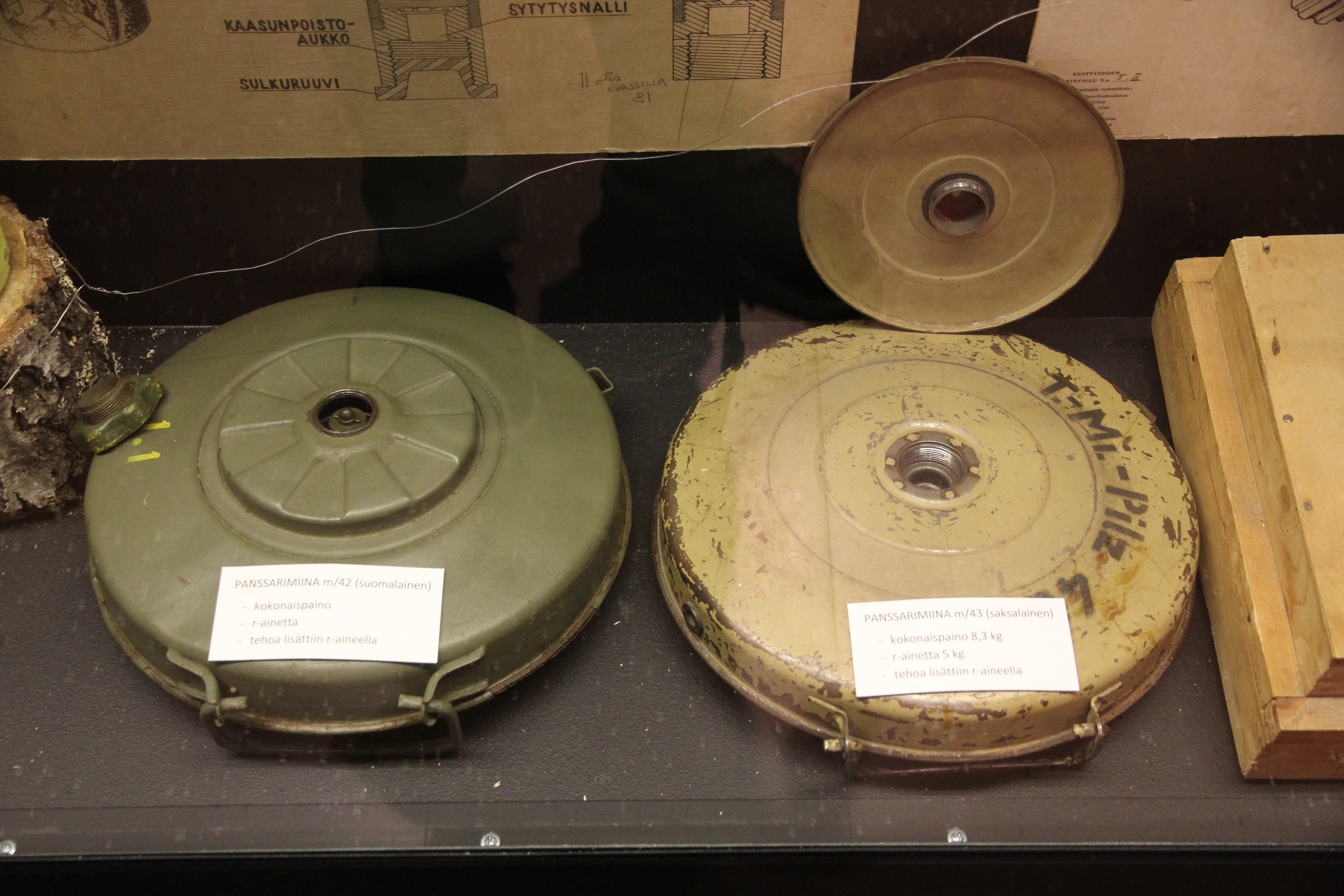 German anti-tank mines Tellermine m/42 (left) and m/43 in RUK-museum in Hamina.